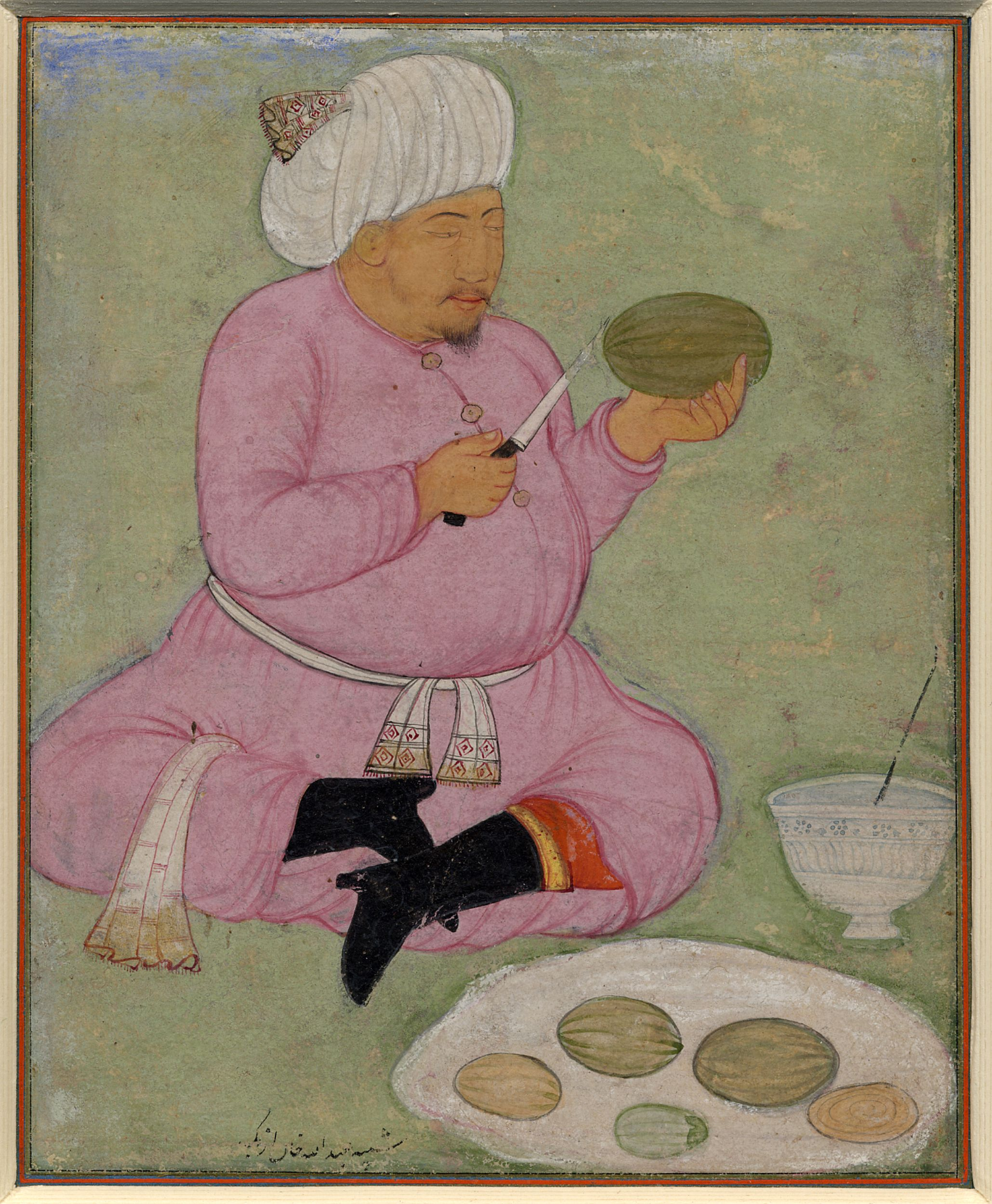 potrait of Bukhran ruler Abdulla khan II (1557-1598)